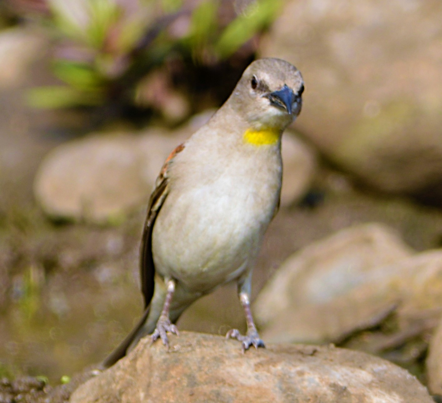 Another pose of Chestnut-shouldered Petronia, Nagpur by Dr. Tejinder Singh Rawal